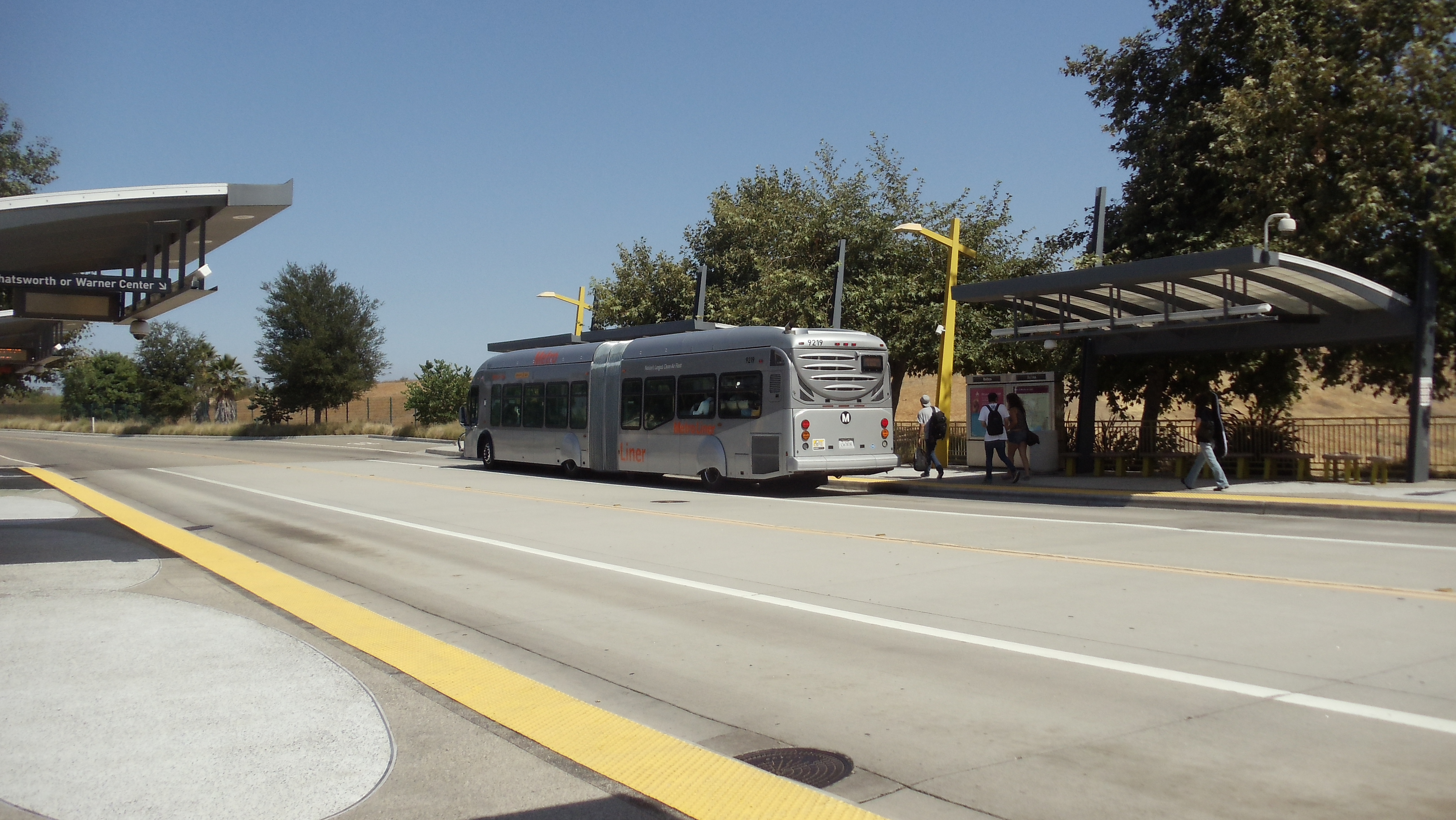 Metro Orange Line at Balboa Station.